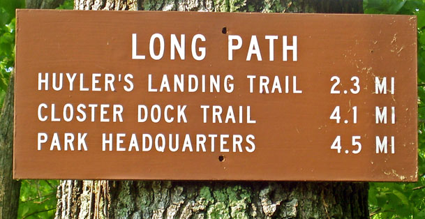 Photographed by Daniel Case 2006-05-16, at the Rockefeller Overlook on Palisades Interstate Parkway.